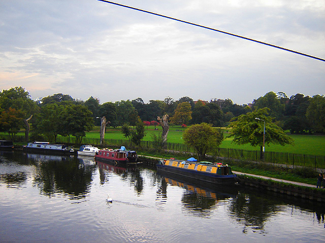 Springfield Park, Upper Clapton, Hackney, London. 11 October 2005. Photographer: Fin Fahey